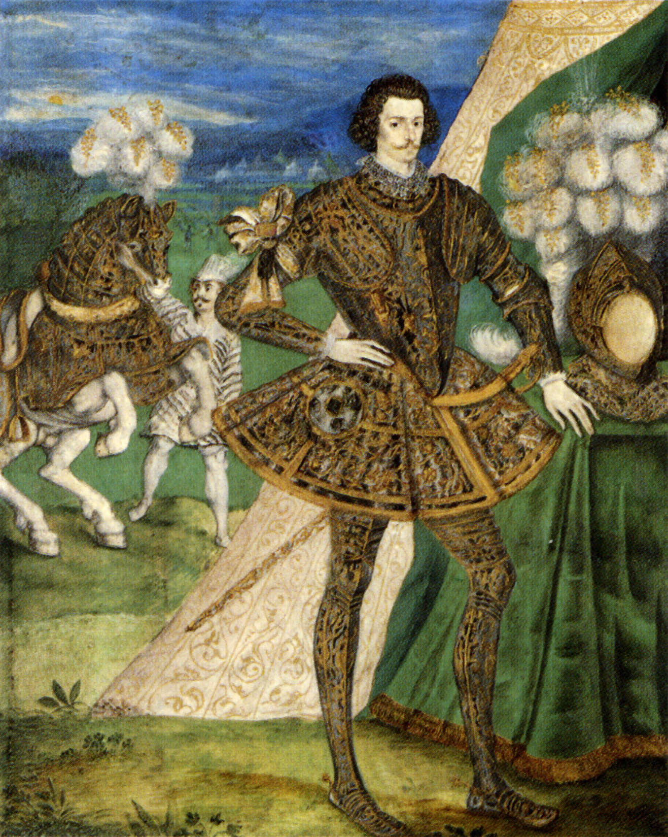 He wears a lady's glove as a favor on his right arm; this miniature may commemorate his appearance at a tournament in 1595 when Elizabeth I of England gave him her glove.